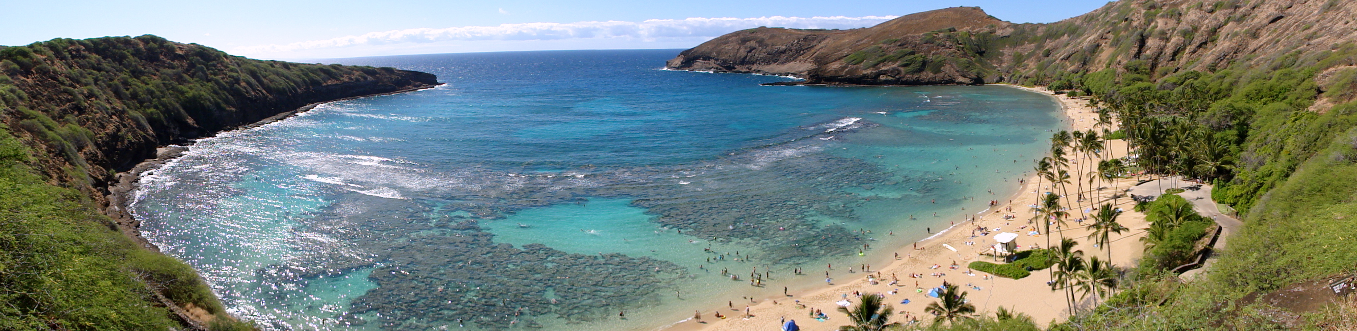 Panoramic view of Hanauma Bay - Hawaii